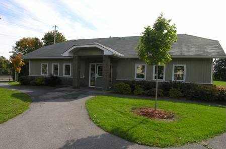 Tanglewood-Hillsdale Community Building - Ottawa, Ontario, Canada